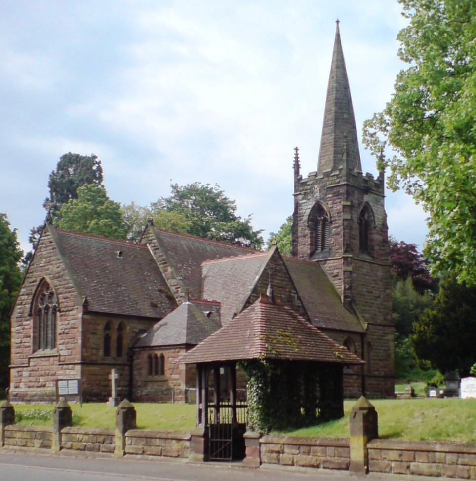 St Leonard's parish church, Dunston, Staffordshire, seen from the northeast